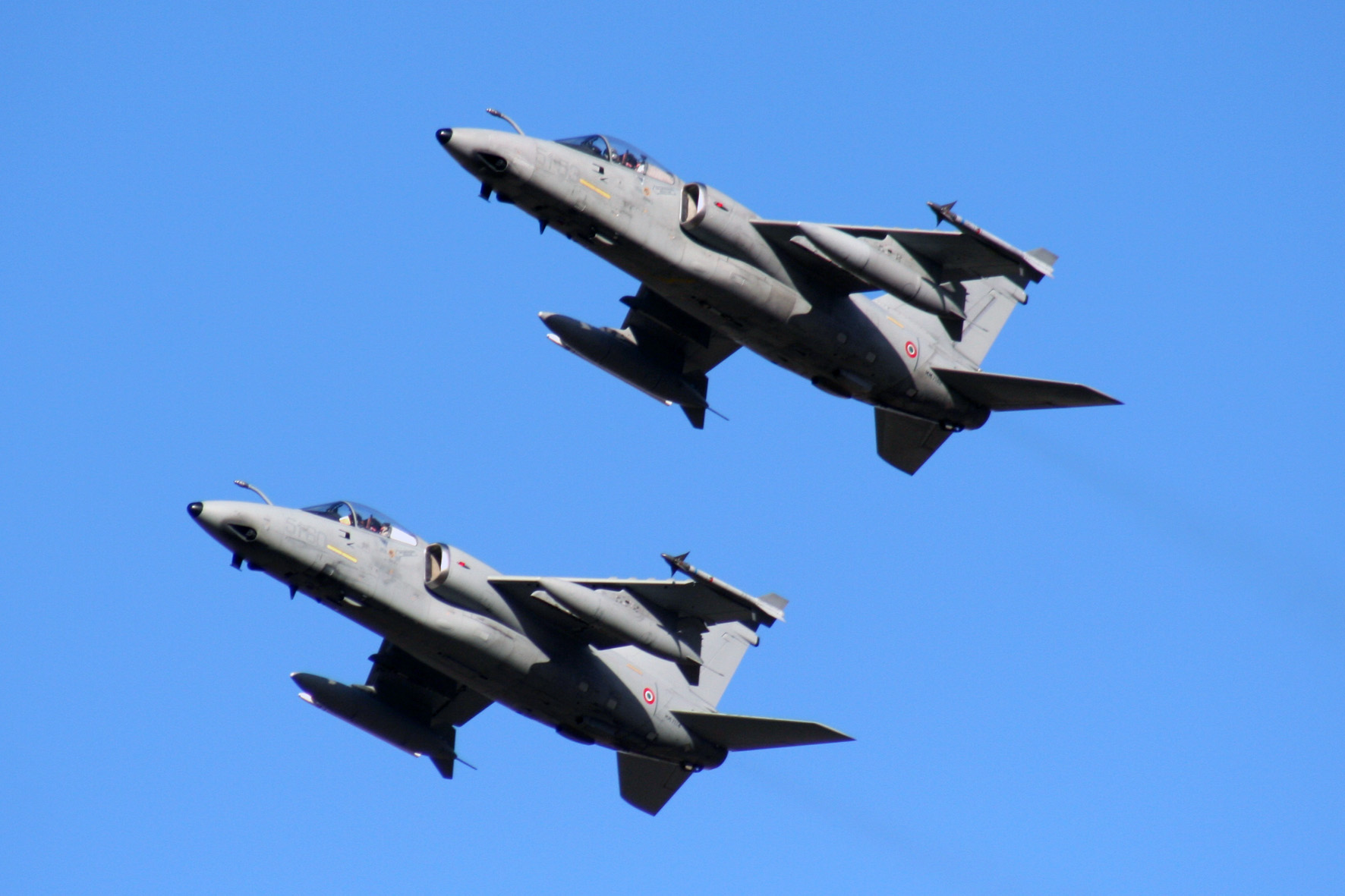 AMX International AMX ACOL Italy Air Force MM7160 / 51-53 C/N IX072 AMX International AMX ACOL Italy Air Force MM7174 / 51-60 C/N IX086